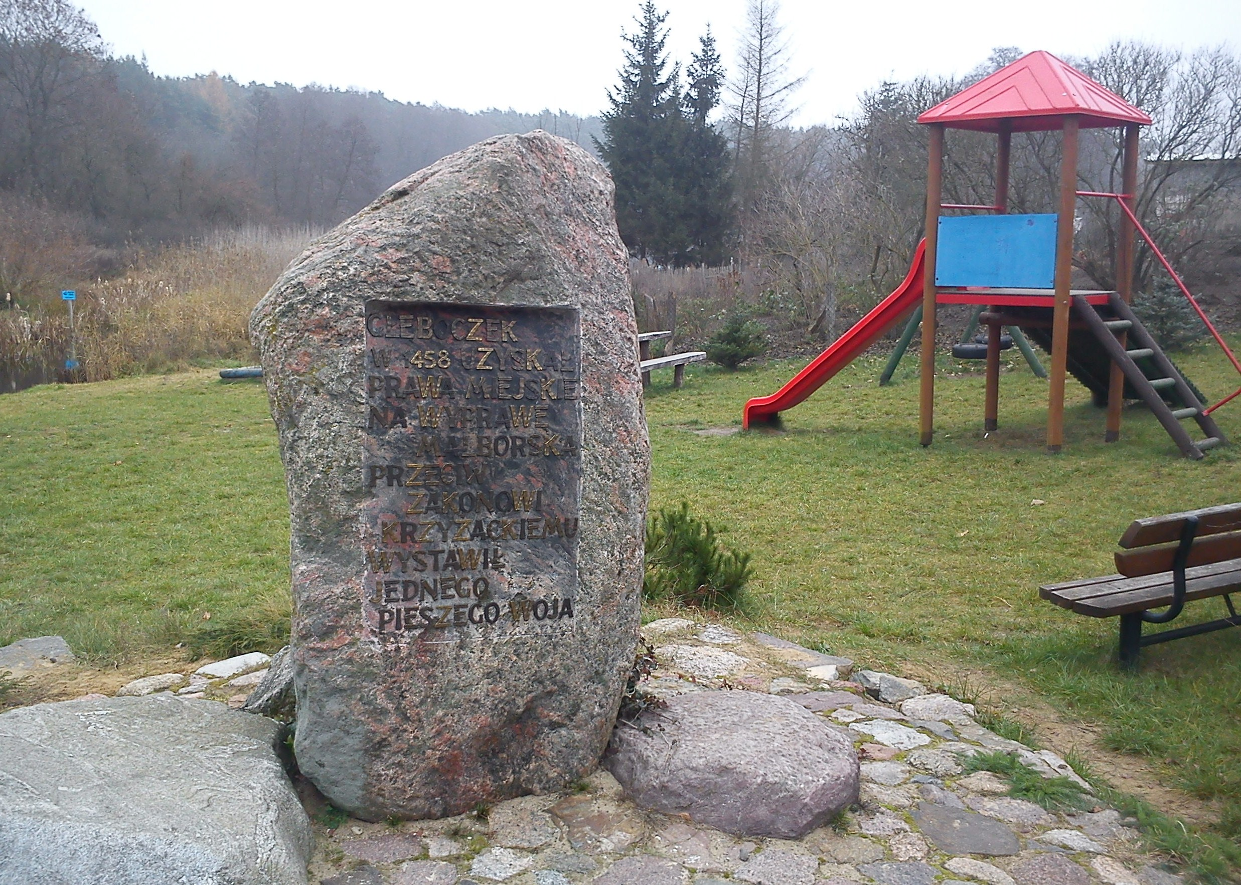 Głęboczek (Puszcza Zielonka). Monument commemorating the town rights (1458).